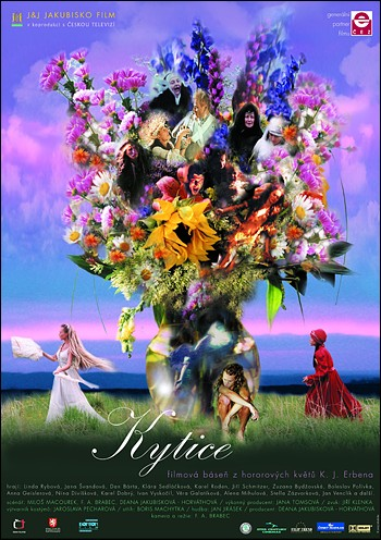 Official poster for the movie Wild Flowers